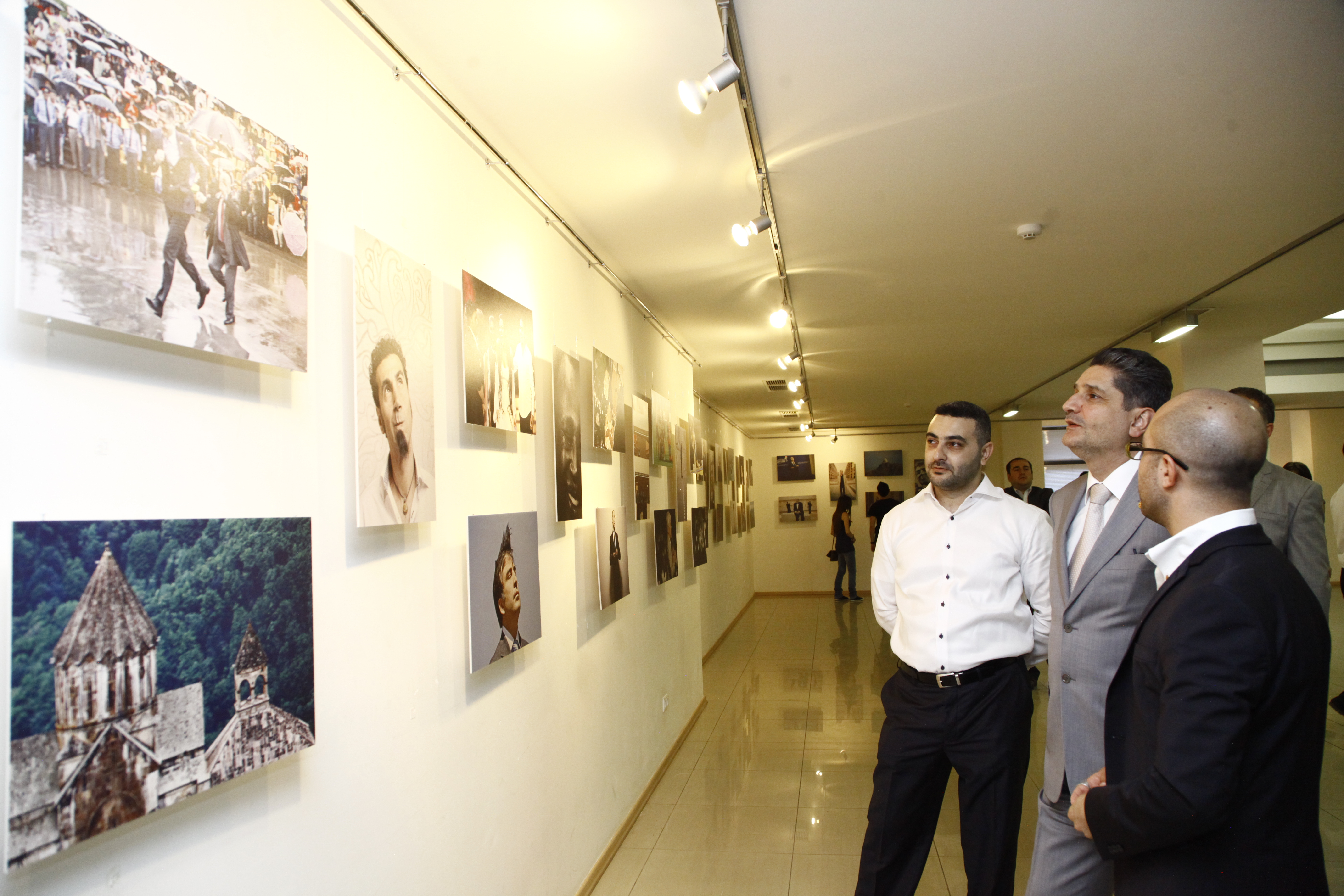 Former Prime Minister of Armenia Tigran Sargsyan at the PanARMENIAN Photo exhibition looking at his famous photograph